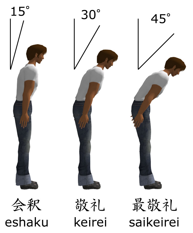 Examples of Japanese bowing (eshaku, keirei, saikeirei)